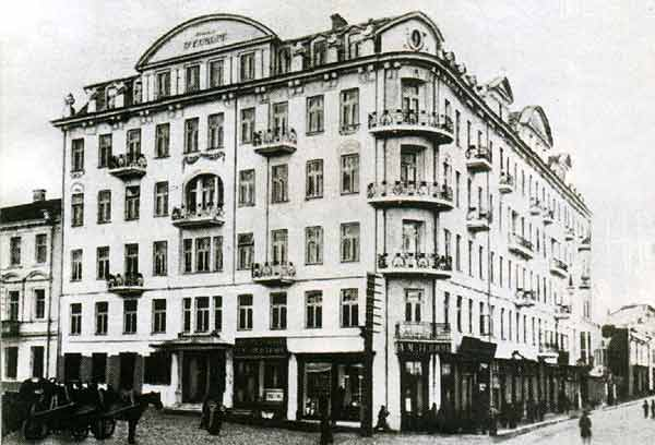 Hotel Europe, Minsk